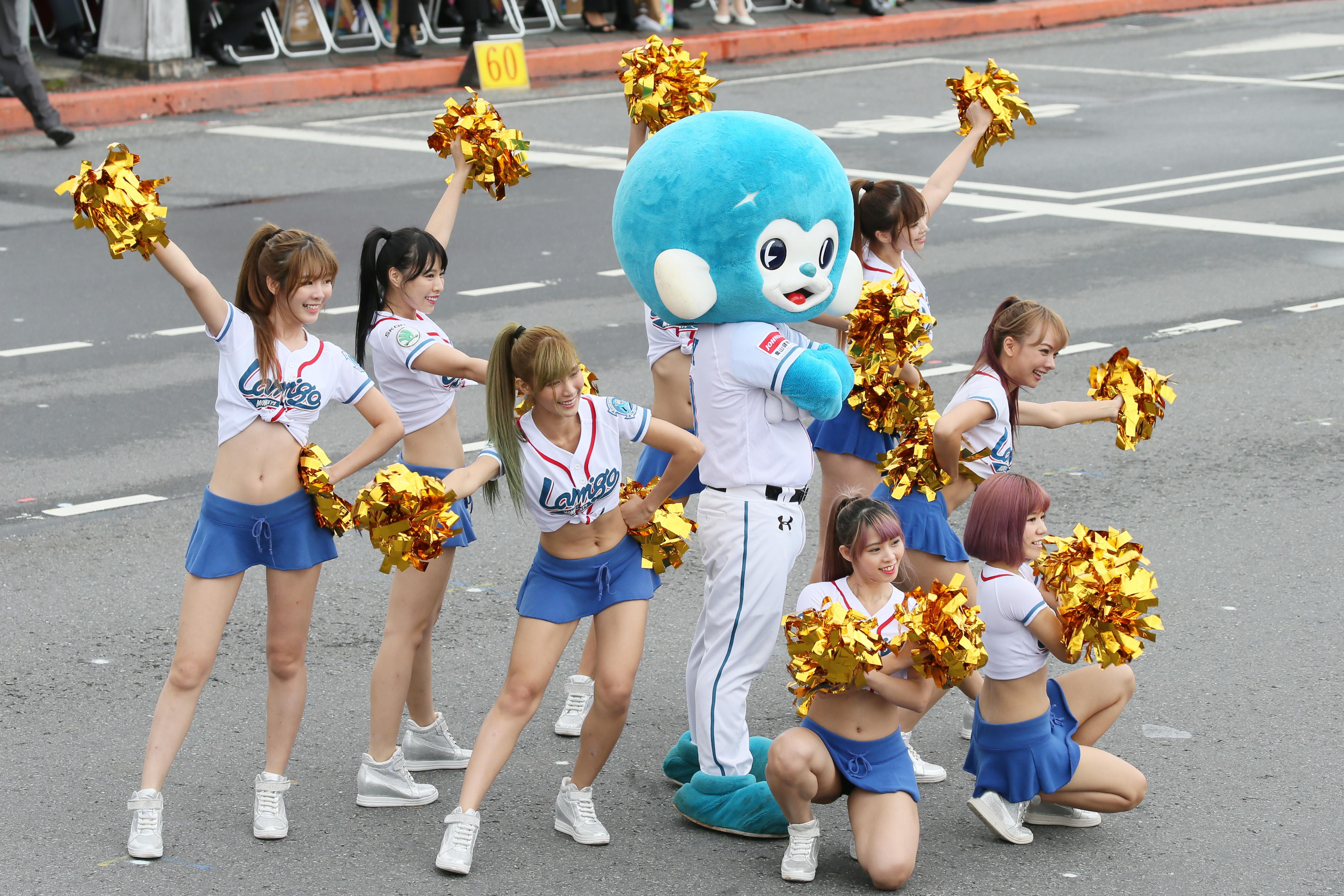 Cheerleaders from the Chinese Professional Baseball League give a wonderful performance during the ROC 2016 National Day celebration.